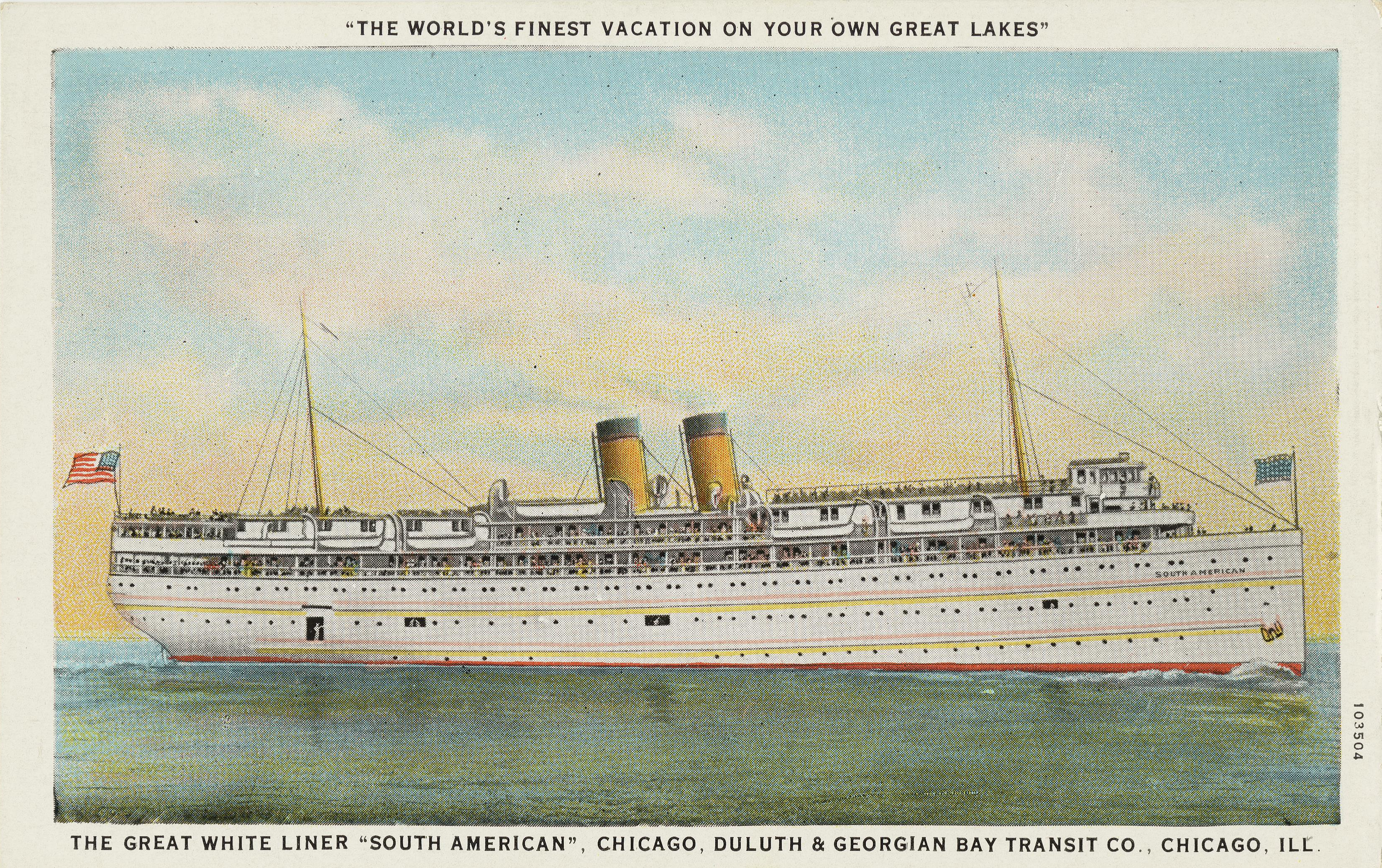 From the University of Maryland Digital Collections website: "The Great White Liner "South American," owned by Duluth & Georgian Bay Transit Co. in Chicago, Illinois, circa 1915-1930. Caption reads: "'The World's Finest Vacation on your Own Great Lakes'" Postcard number: 103504."